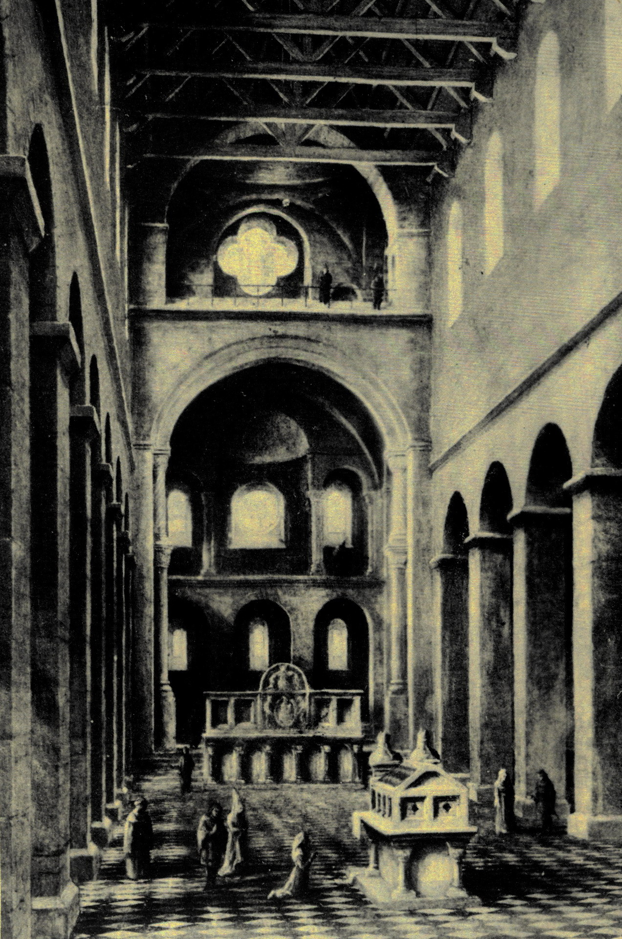 Reconstruction of the Medieval Basilica of Saint Servatius (ca. 1100-1450), Maastricht, the Netherlands. Drawing by Hustinx, 1904